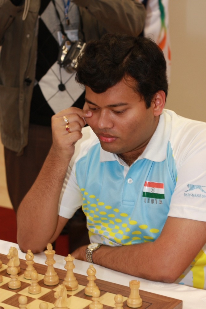 Surya at World Team 2010